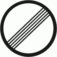 Diagram of road signs of Luxembourg